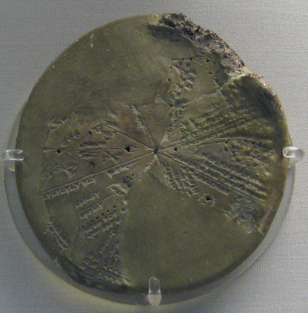 Part of a circular clay tablet with depictions of constellations (planisphere); the reverse is uninscribed; restored from fragments and incomplete; partly accidentally vitrified in antiquity during the destruction of the place where it was found. Found in Kuyunjik, ancient Nineveh, in the so-called “Library of Ashurbanipal”. Neo-assyrian period.